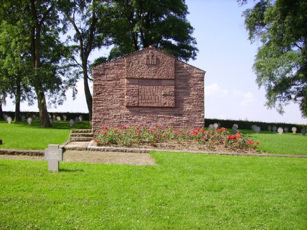 Chapel in Rancourt German Cemetery